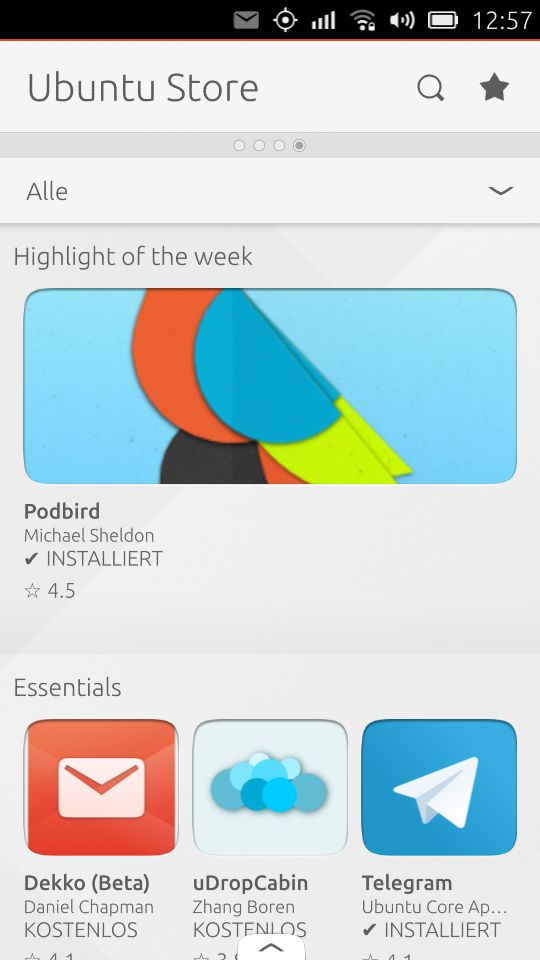 Ubuntu Touch ubuntu store